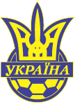 Logo of the Football Federation of Ukraine and its representative teams.